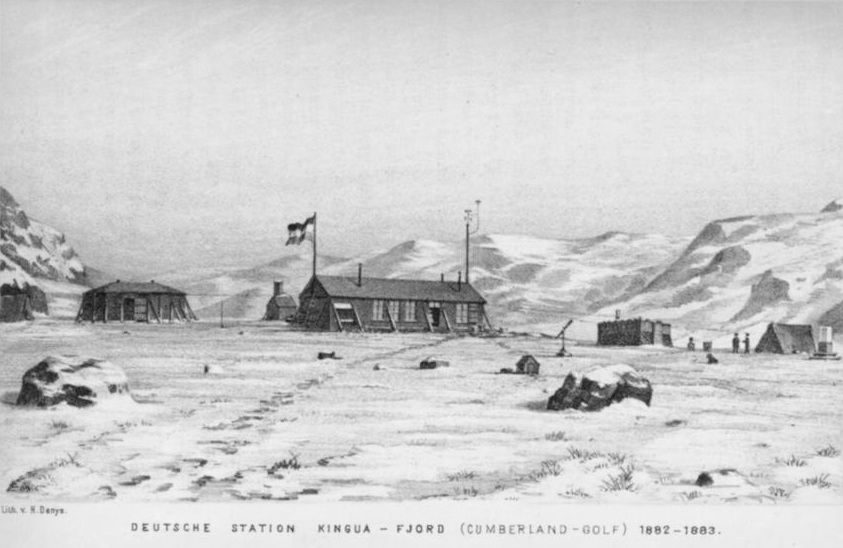 Plate from a publication of the first IPY (International Polar Year, 1882-1883)